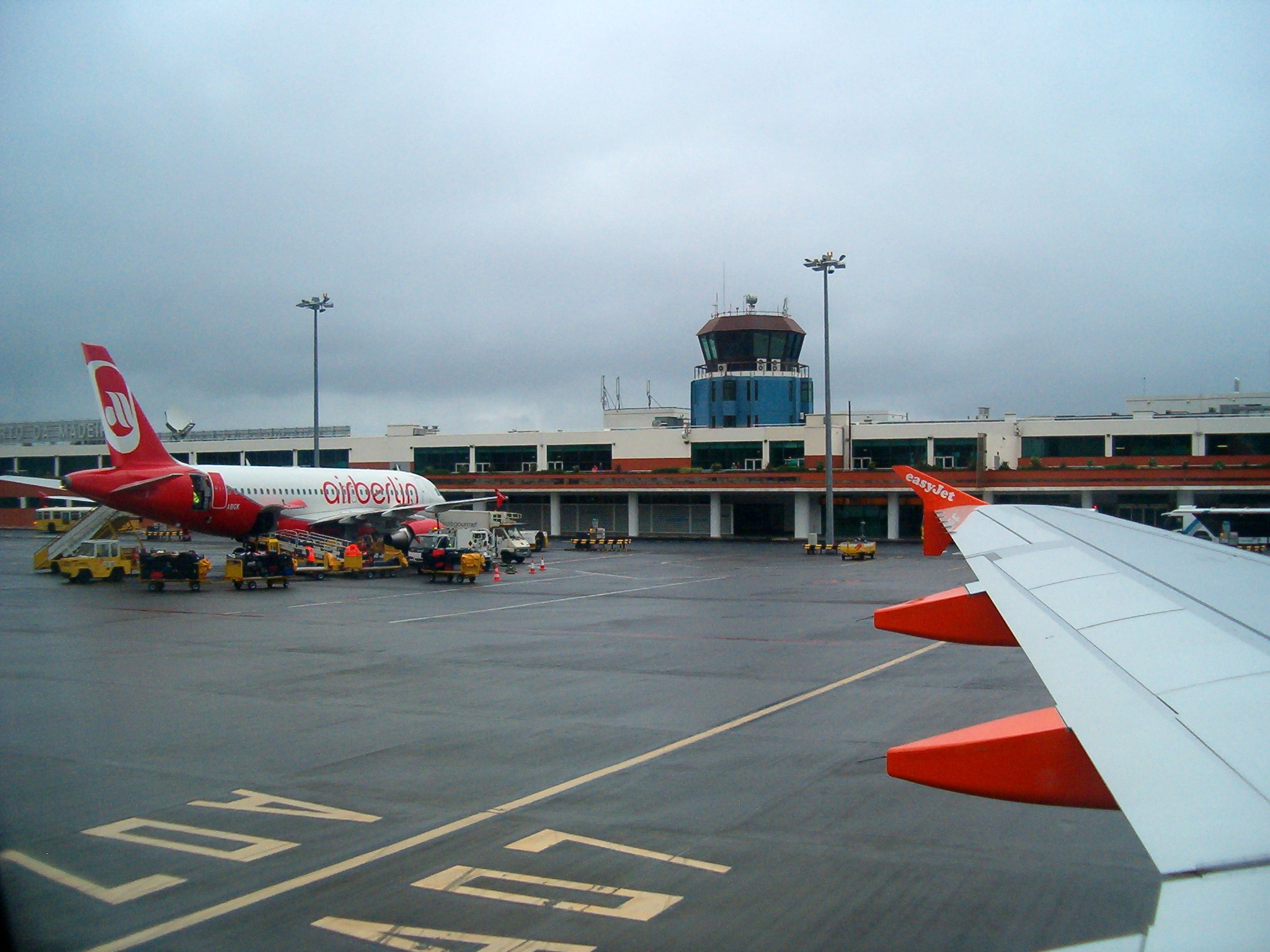 In the Airport of Madeira